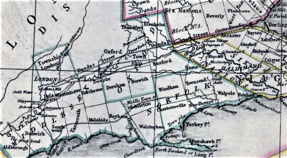 extracted and enhanced image of portion of Smythe's Map of Upper Canada published in London in 1813. drawn from image of full map on McMaster University Digital Library website, described as public domain document